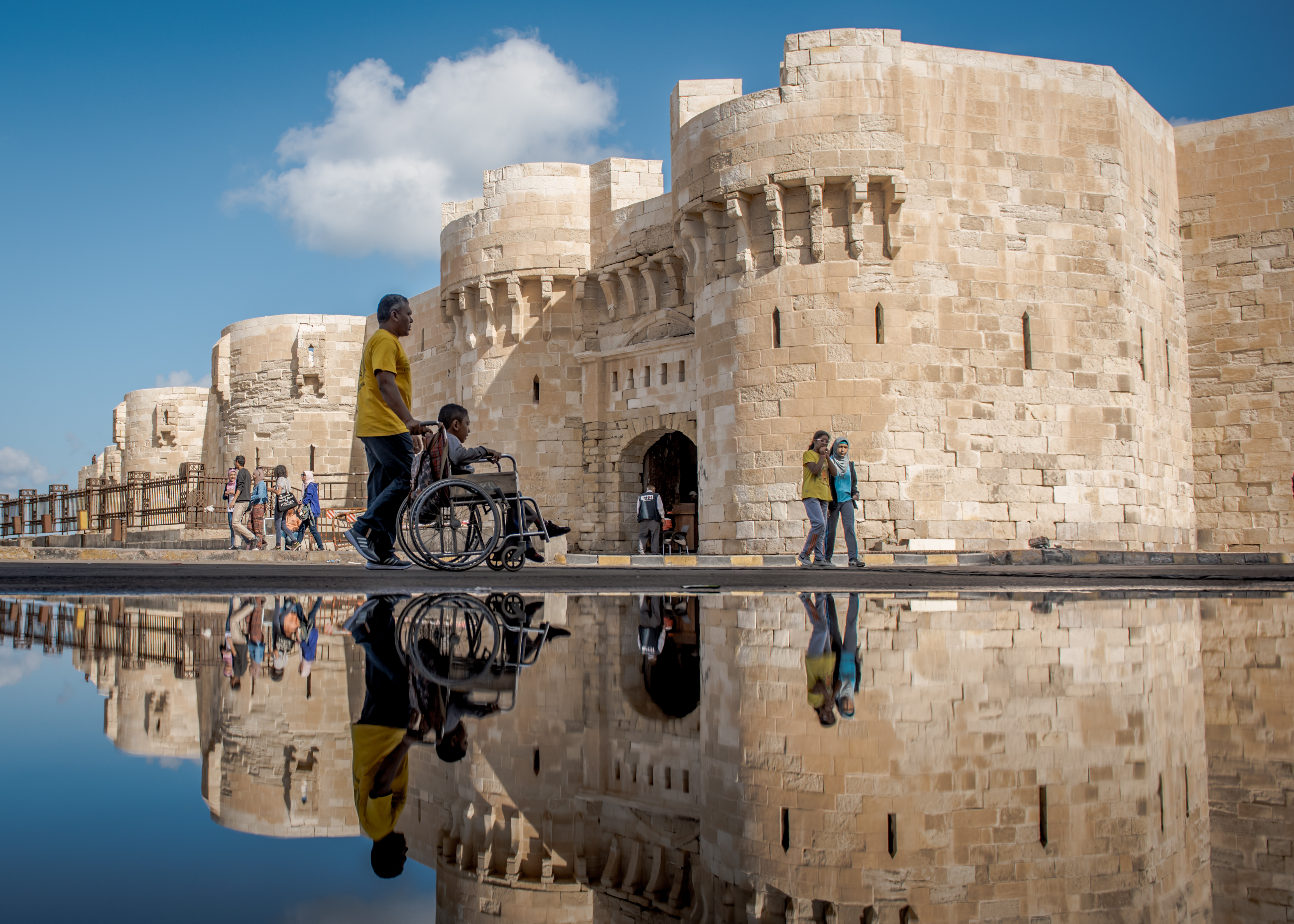 This is an image with the theme "Africa on the Move or Transport" from: Egypt